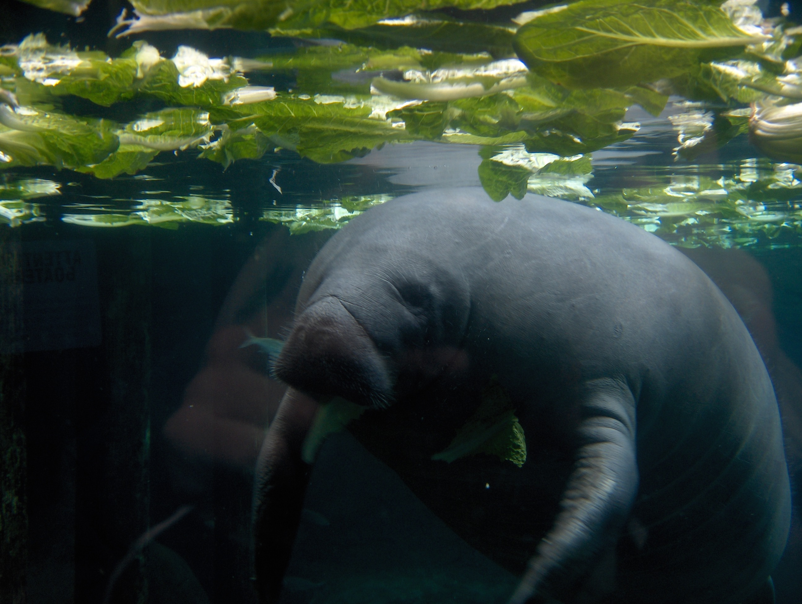 Manatee, Columbus zoo, Ohio